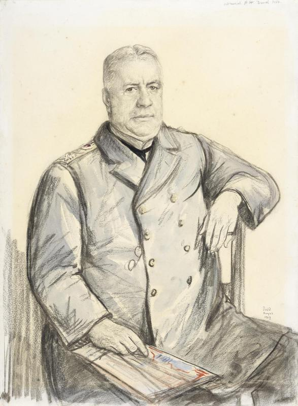 Rear-admiral Henry Harvey Bruce Cb Mvo- Superintendant, Rosyth Dockyard 1915 image: a three quarter length portrait of Rear Admiral Henry Bruce in uniform, sitting on a chair with a map or chart in his lap.